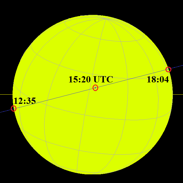 Transit of Mercury Mercury transits the sun from east to west at its ascending node. The horizontal yellow line represents the ecliptic, and the top is North.